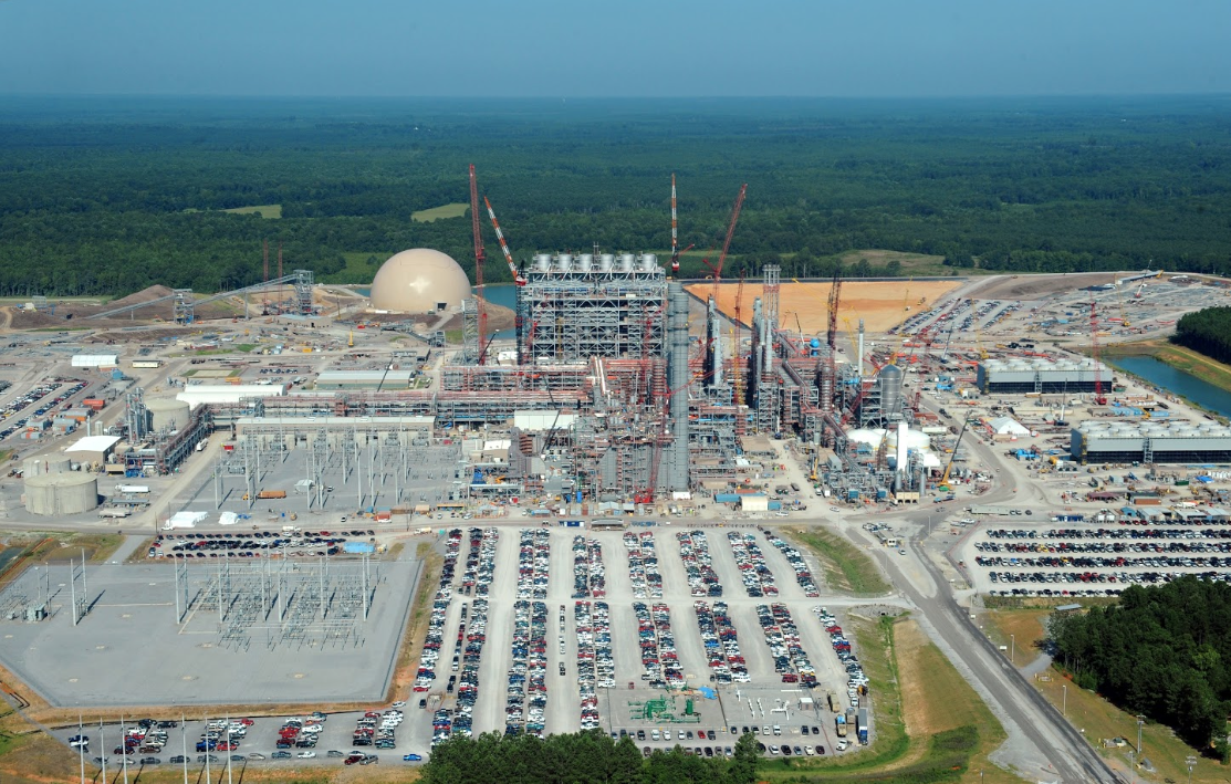 The Plant is currently under construction.